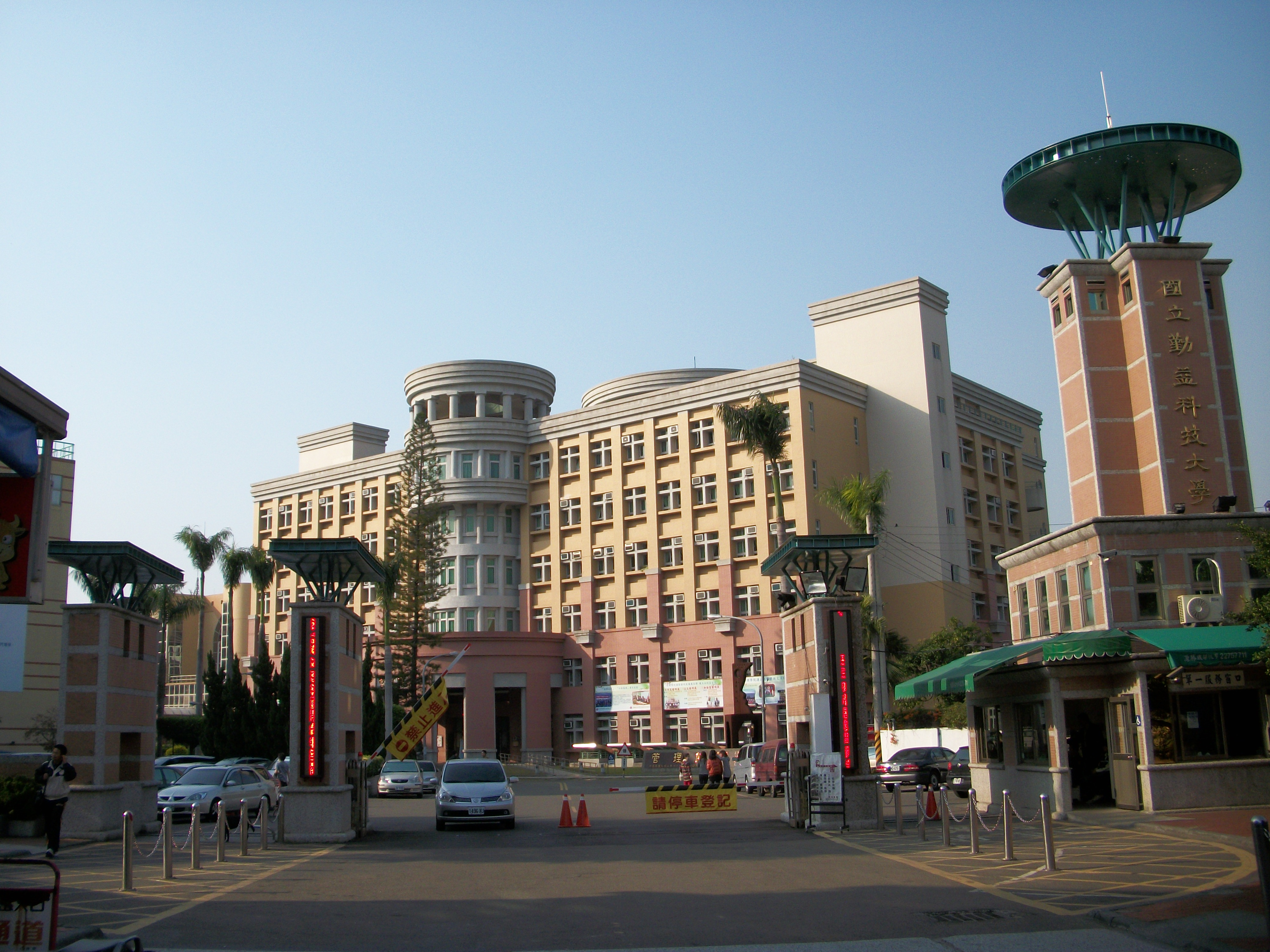 The main gate of Chinyi Technology University in Taiping City,Taiwan.中文（台灣）: 臺中市太平區的勤益科技大學215巷校門口(限行人通行。